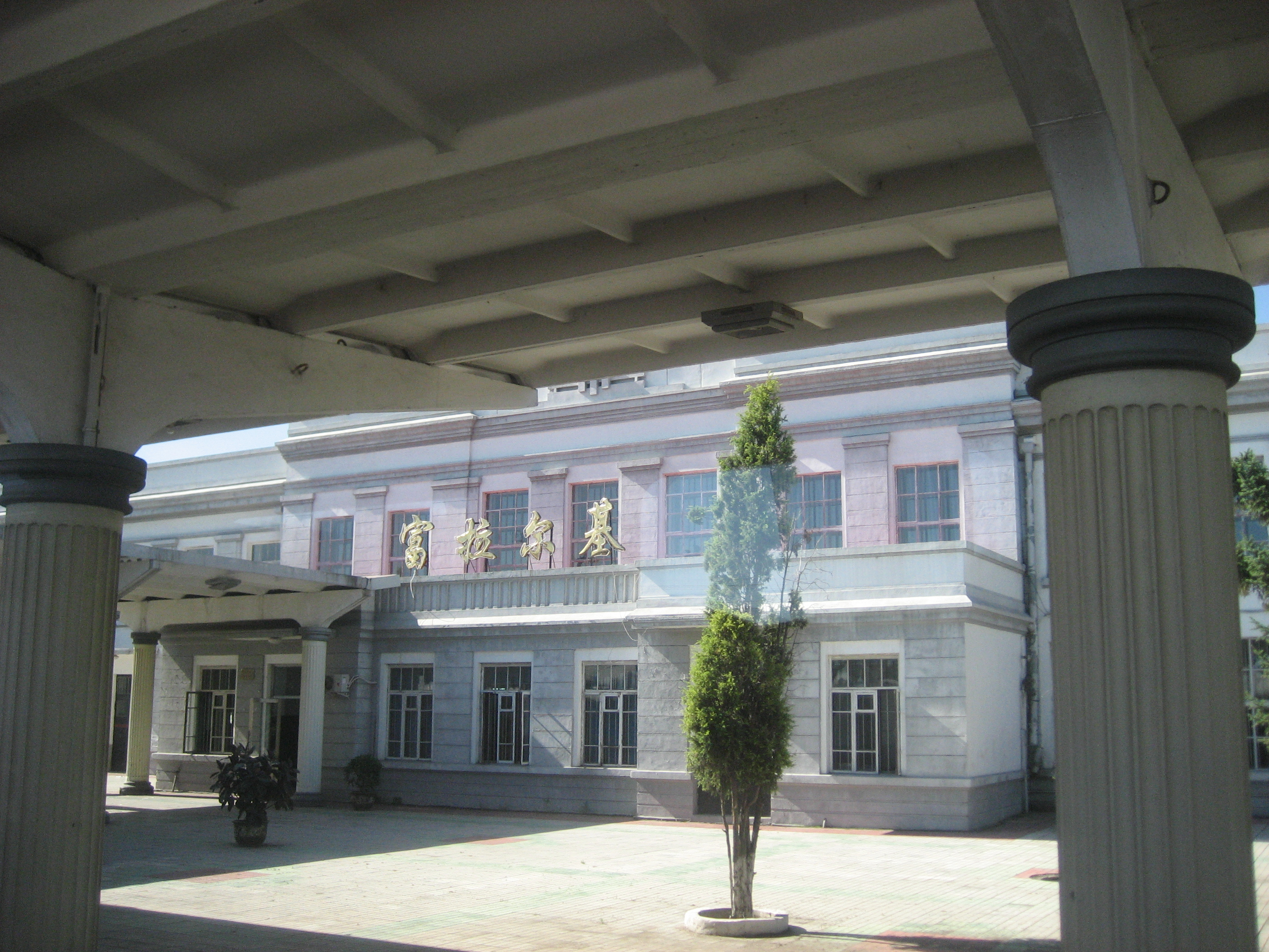 Hulan Ergi district of Qiqihar